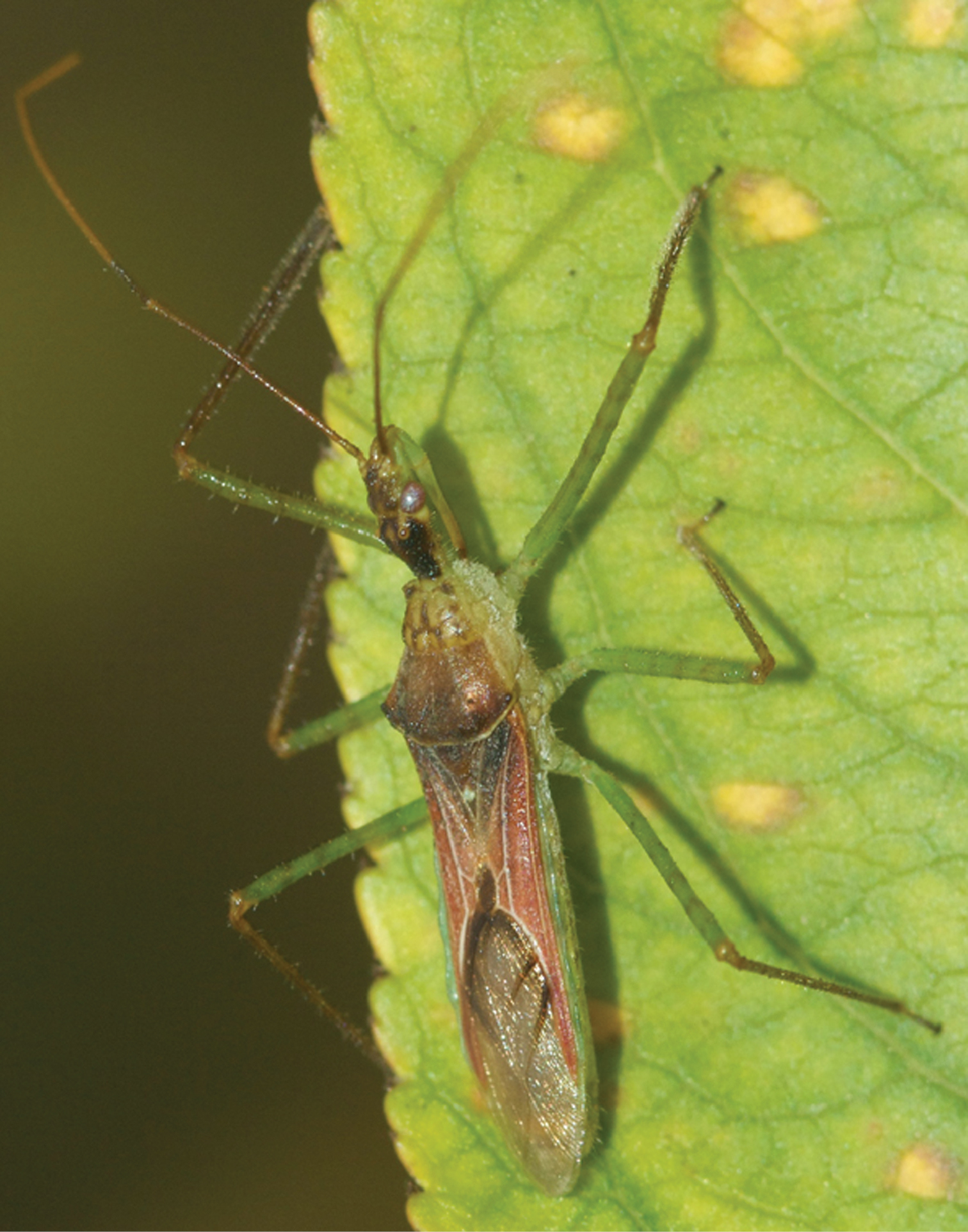 Zelus renardii Kolenati, 1856 (Reduviidae, Harpactorinae). Photo K. Kamppeter. Determination L. Vivas.